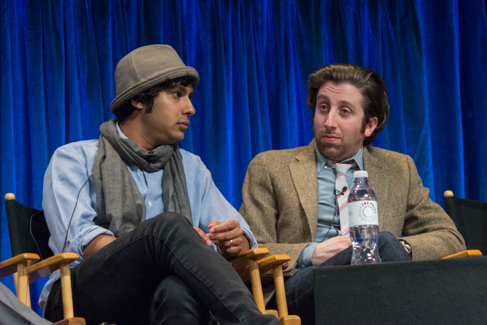 Kunal Nayyar and Simon Helberg at PaleyFest 2013 for the TV show "Big Bang Theory"